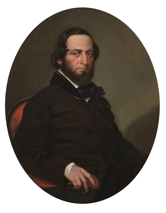 Portrait of Edwin Warren Moïse, oil on canvas, by Theodore Sidney Moïse, Princeton University Art Museum